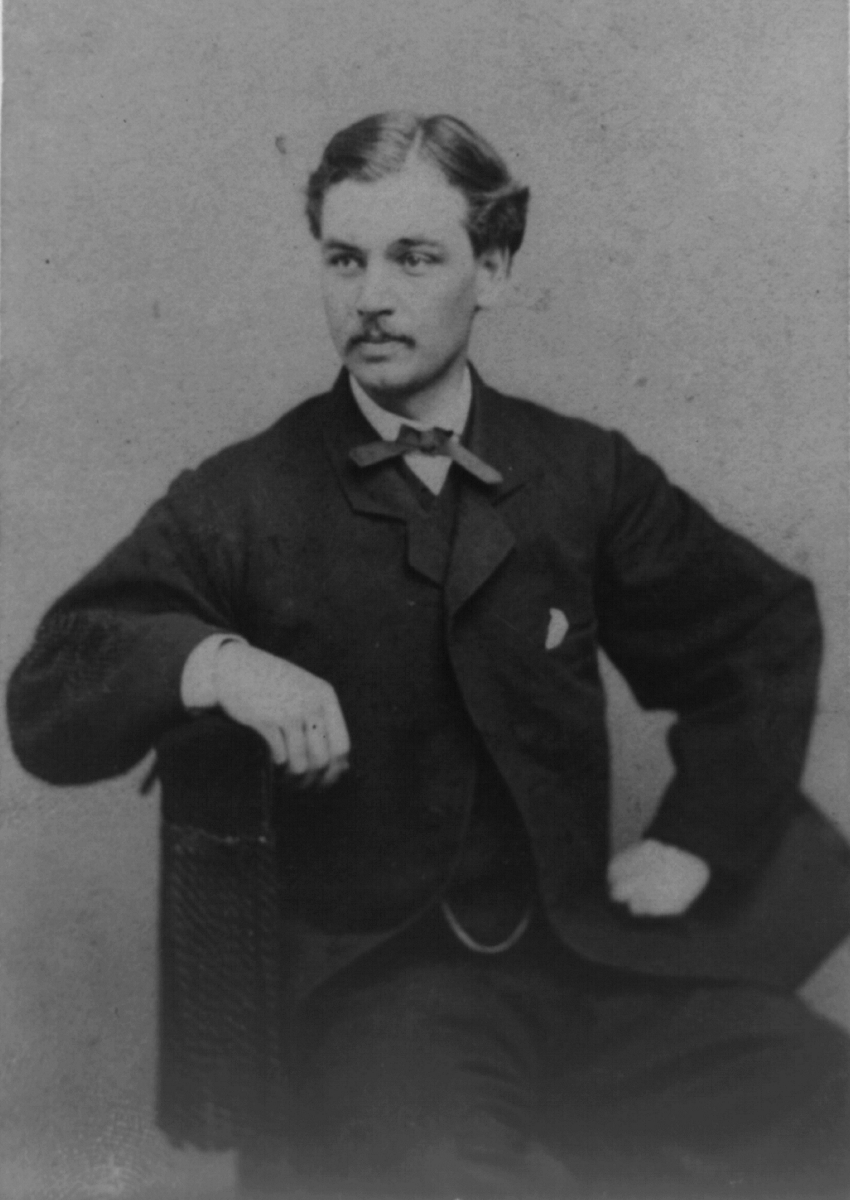 Robert Todd Lincoln, three-quarter length portrait, seated